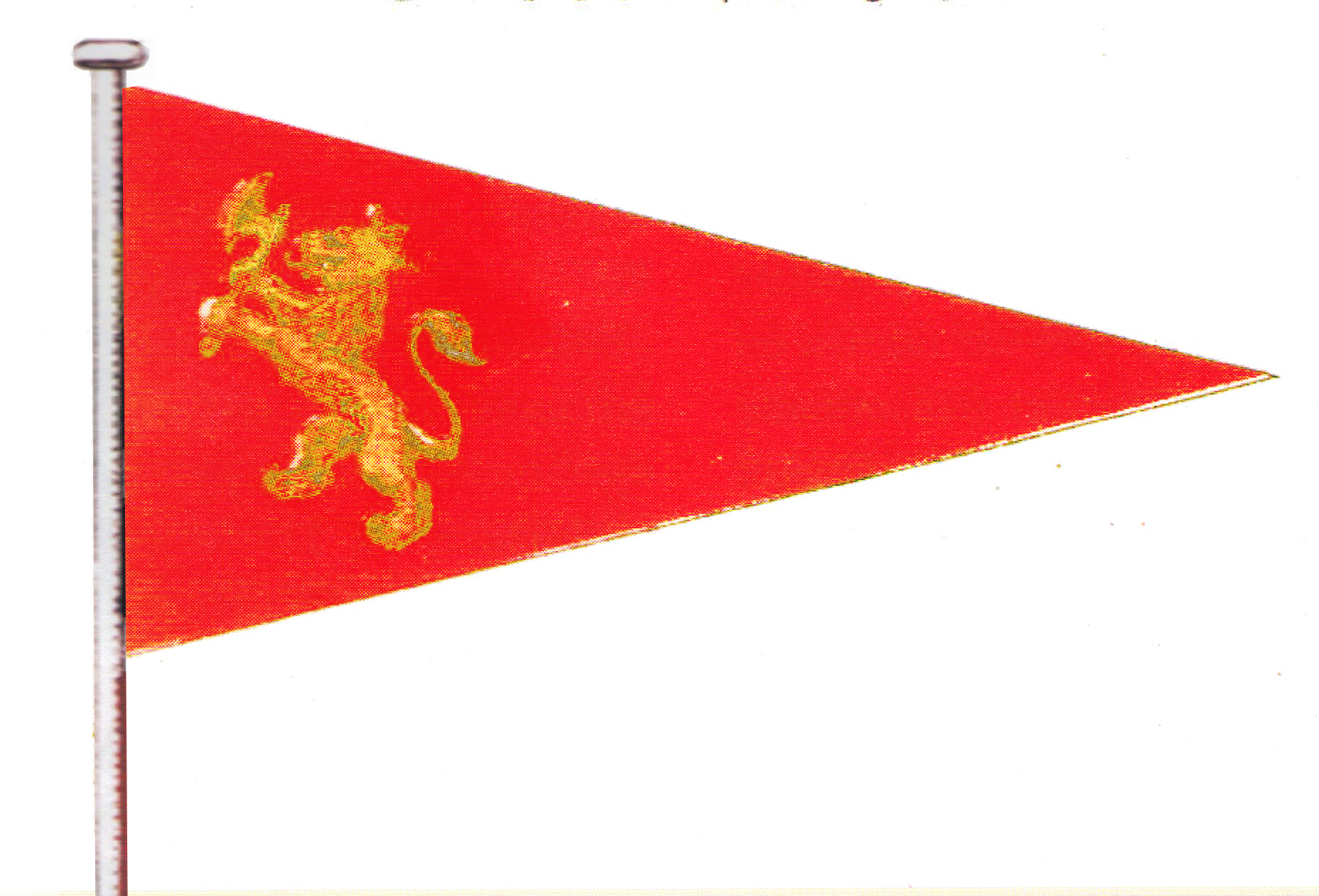 Burgee of Norsk Forening for Lystsejlads (Royal Norwegian Yacht Club) before 1904.